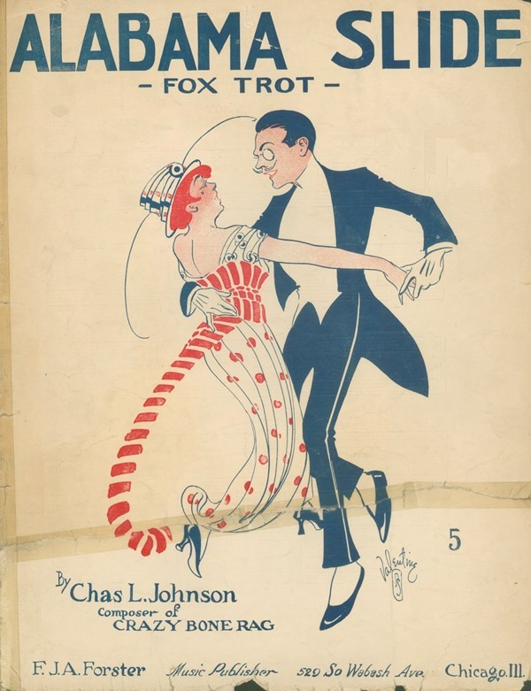 Alabama Slide, 1915